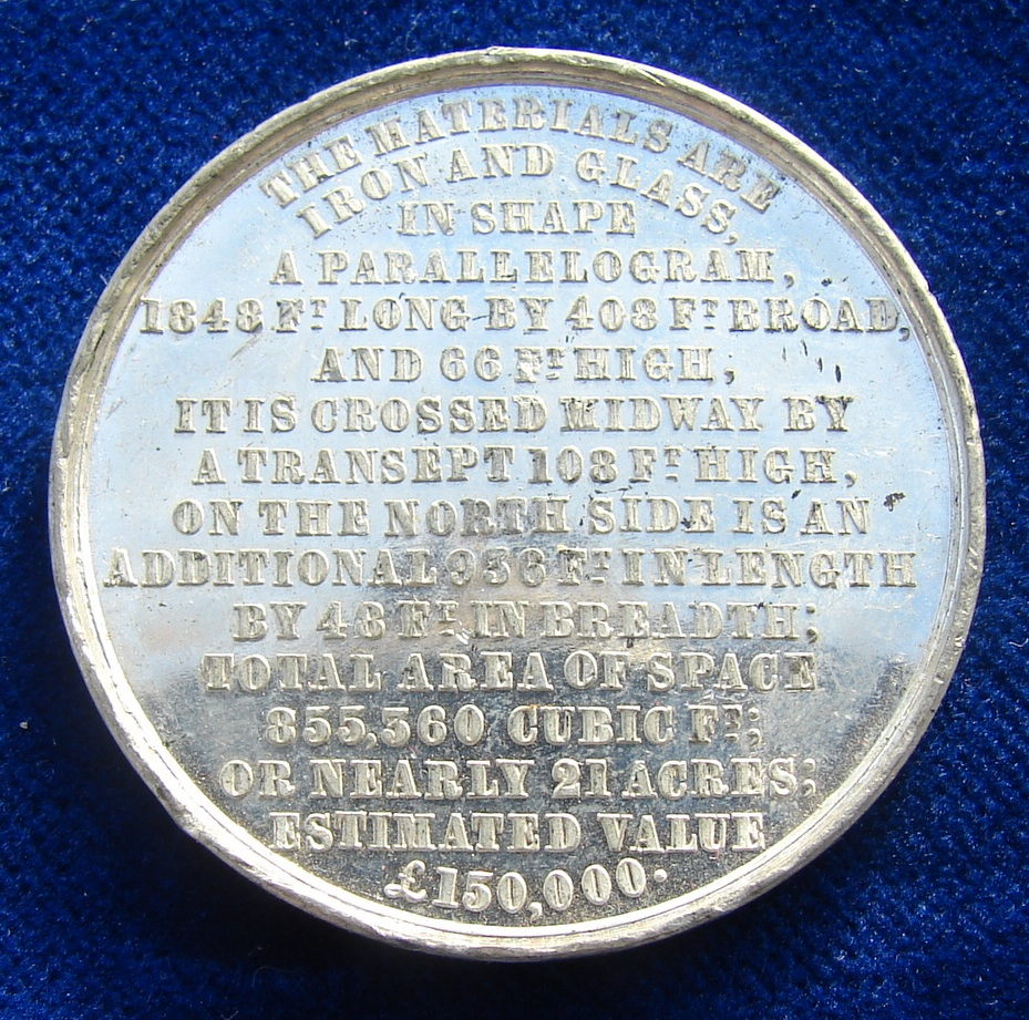 White metal, d.= 39 mm. Victoria 1837 - 1901 and Albert, Franz August Karl Emanuel, 1819 Coburg, Germany - 1861 Windsor Catle and Sir Joseph Paxton, Architect, 1803 Milton Bryan, Bedfordshire - 1865 Rockhills, Sydenham, England. Crowned medallion of Victoria & Albert below the Expo building , 3 lines curved above: "THE BUILDING AT LONDON, FOR THE INTERNATIONAL EXHIBITION 1851" / 16 lines: "THE MATERIALS ARE IRON AND GLASS; IT IS IN SHAPE A PARALLELOGRAM, 1848 FT LONG BY 408 FT BROAD, AND 66 FT HIGH; IT IS CROSSED MIDWAY BY A TRANSEPT 108 FT HIGH; ON THE NORTH SIDE IS AN ADDITIONAL 936 FT IN LENGTH BY 48 FT IN BREADTH; TOTAL AREA OF SPACE 855,360 CUBIC FT ; OR NEARLY 21 ACRES; ESTIMATED VALUE £ 150,000." Ines Augustin, 30. Medallists: (Joseph John) Allen 1824 (circa) Birmingham - 1878 Birmingham & (Joseph) Moore (Snr), 1817 Birmingham - 1892 Birmingham. Condition: EXTREMELY FINE